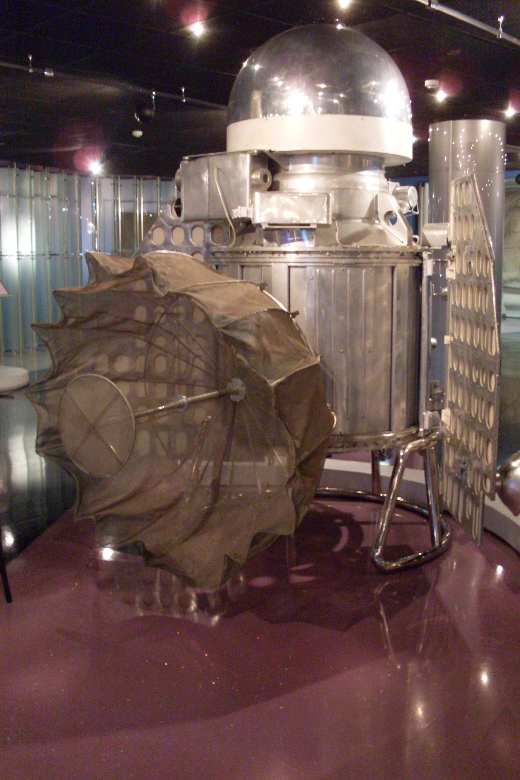 Mockup (1:1) of the spacecraft Venera 1 at Memorial Museum of Astronautics (Moscow).